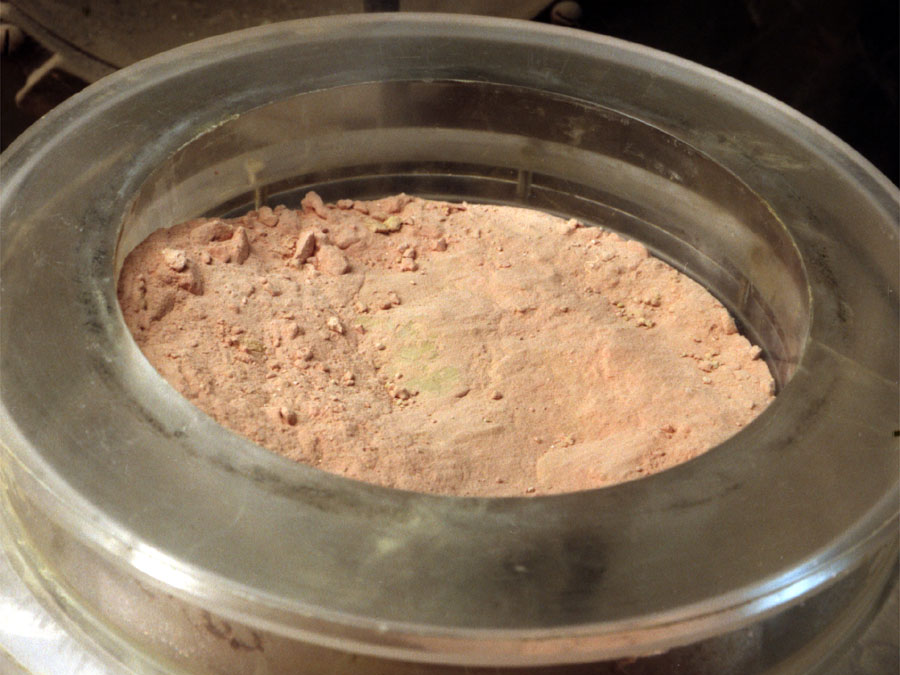 Shows one of the colors plutonium tetrafluoride can be.